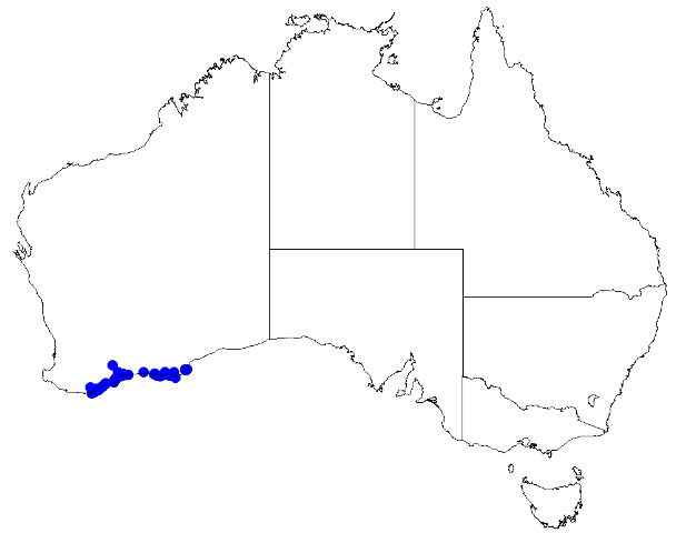 Boronia tetrandra downloaded from Australasian Virtual Herbarium 10 April 2019 using This download included all the environmental overlay fields and ALA's data checking fields including "cultivated / escapee", "outside expert range for species", "latitude is negated", "coordinates are transposed", "taxon misidentified", "habitat incorrect for species", and "suspected outlier" (711 fields). Deleting occurrences for which any of the above were true, 46 specimens with coordinates were deleted.